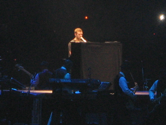 American musician Justin Timberlake performing "All Over Again" live in the FutureSex/LoveShow tour. Air Canada Centre, Toronto, Canada.